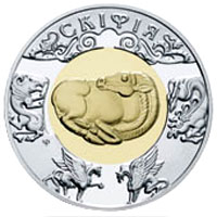 Coin of Ukraine